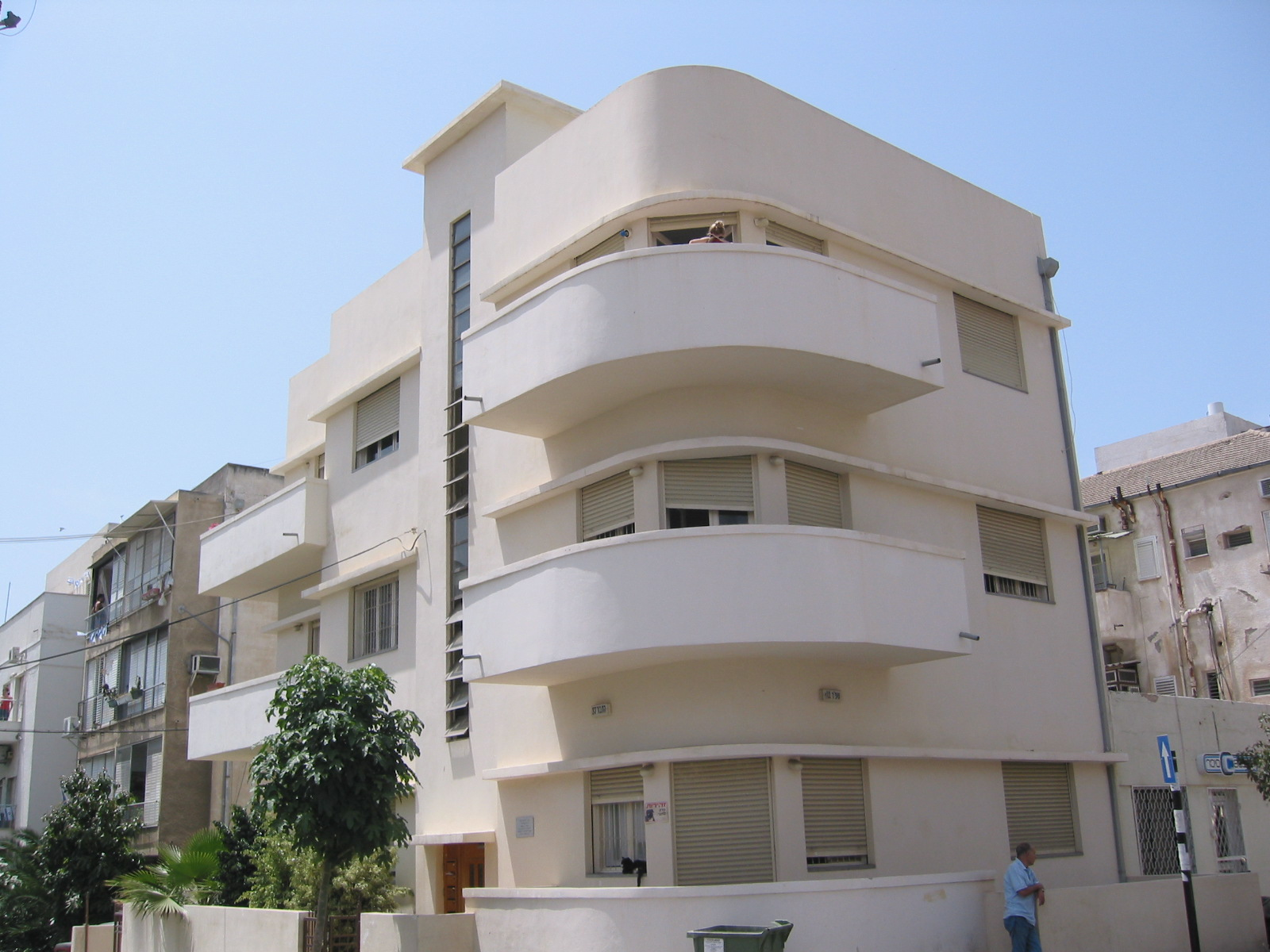 International style house 37 Ha-Tavor Street/12 Shefer Street in the White City of Tel Aviv